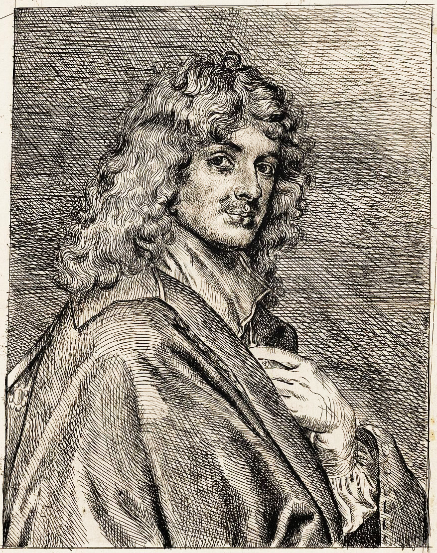 Self-portrait by Claude Lefèbvre. Etching; 25.8 x 20.7 cm (sheet); 24 x 19 cm (image).